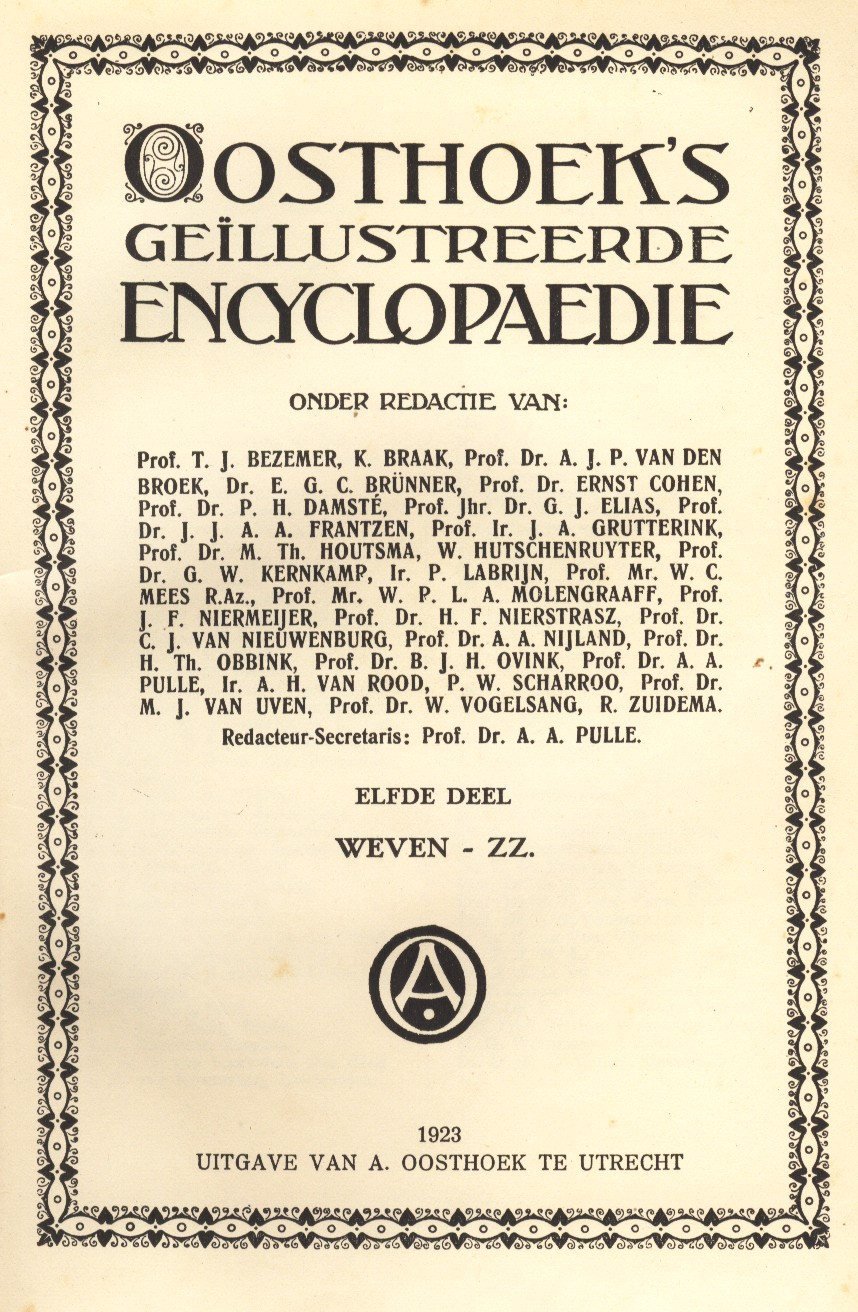 Facsimile of the first edition of Oosthoeks Encyclopedie.